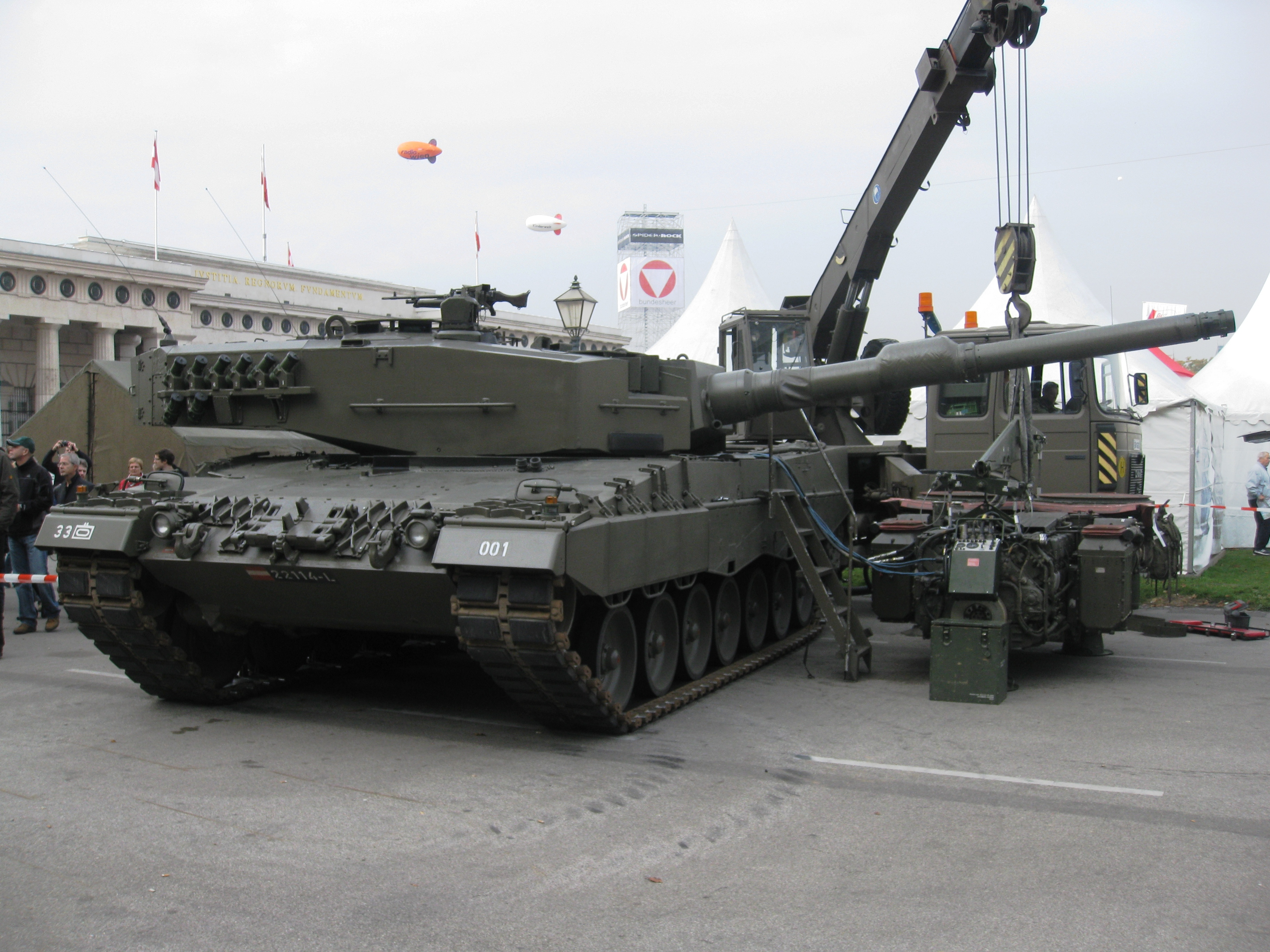 An Austrian Leopard 2A4 tank on display in the Heldenplatz for the Austrian National Holiday